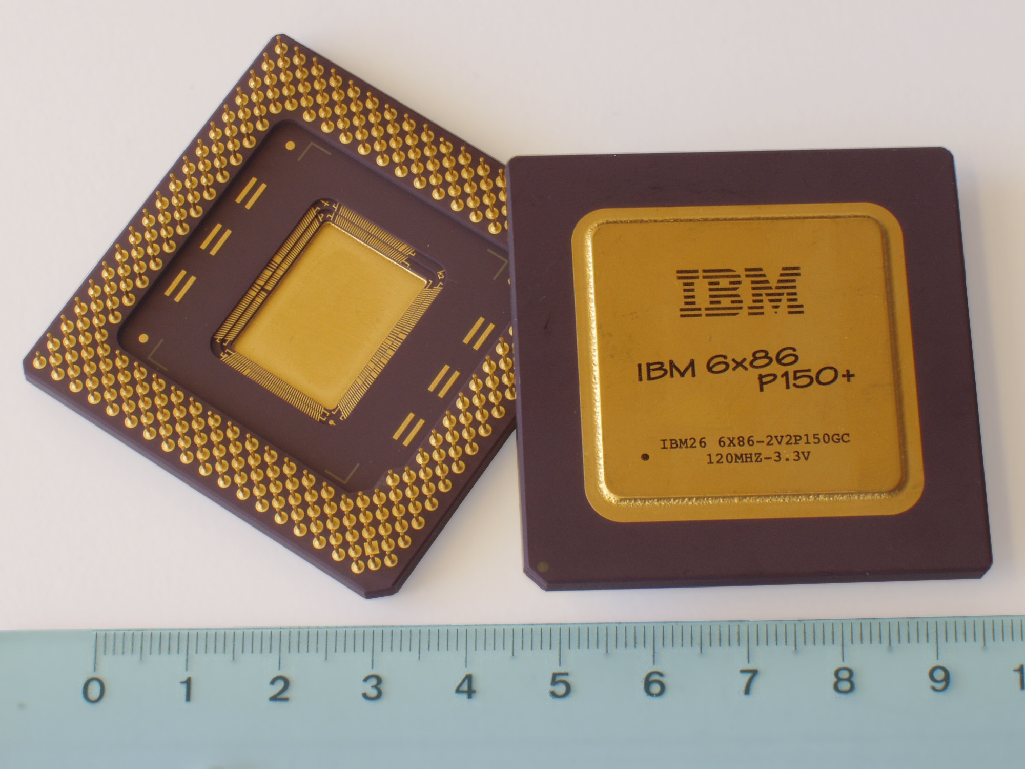 Ceramic PGA Package, IBM 6x86